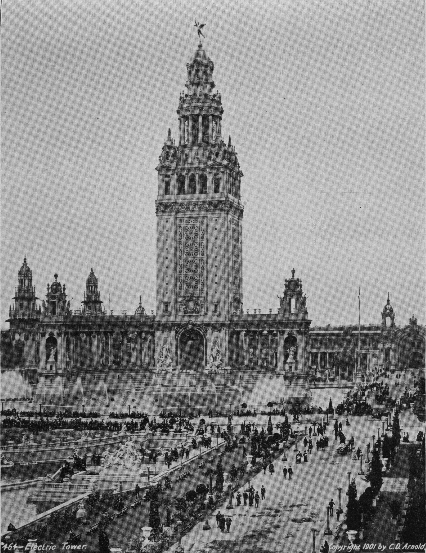 Original caption: "The Electric Tower - The Electric Tower is the crowning feature of the Exposition. It typifies the power of the elements, and especially the mysterious force of electricity, hence is surmounted by the winged figure of the Goddess of Light by Herbert Adams. From the ground to the tip of the torch held by this figure is 411 feet. John Galen Howard is the architect."